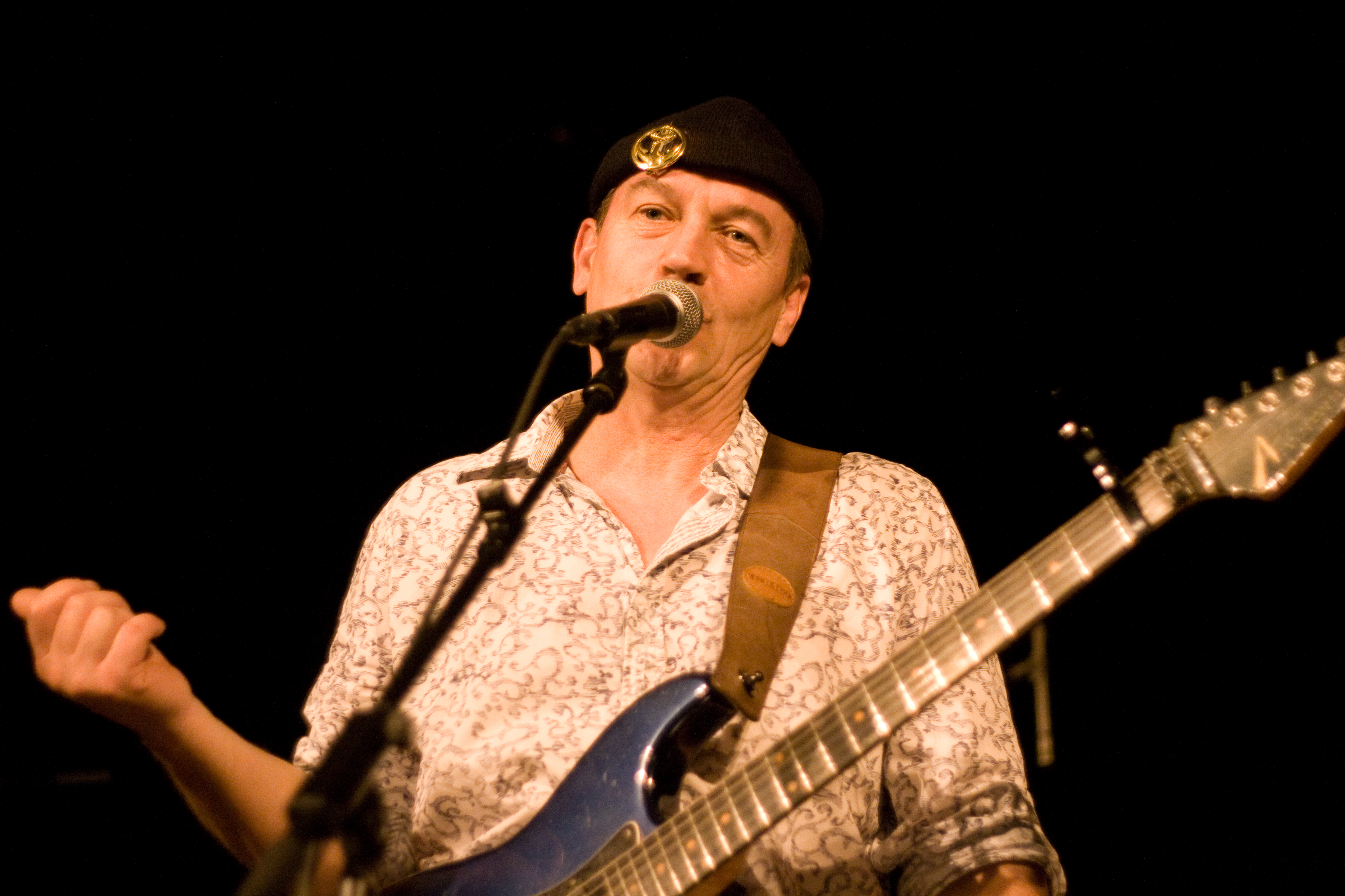 Soldat Louis' show in Monthey.